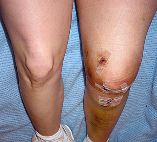 Photograph showing post-surgical swelling of left knee and leg due to ACL reconstruction, partial meniscectomy and meniscus repair. Photographed 5 days post-op by Shannon Moore. Patient was myself, in early 2005. Source of graft: hamstring autograft.